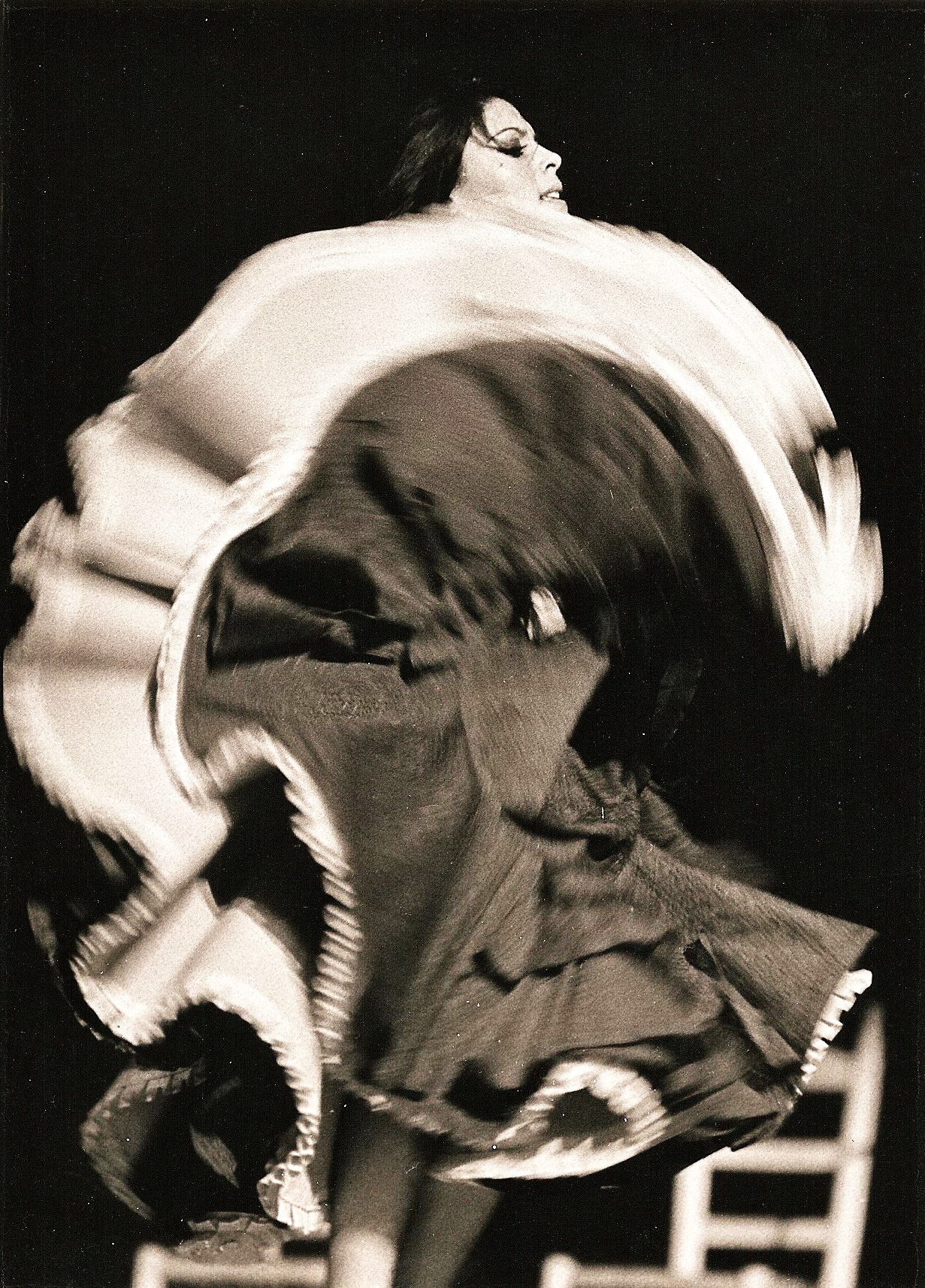 La Singla, dancing Flamenco, Munich 1974